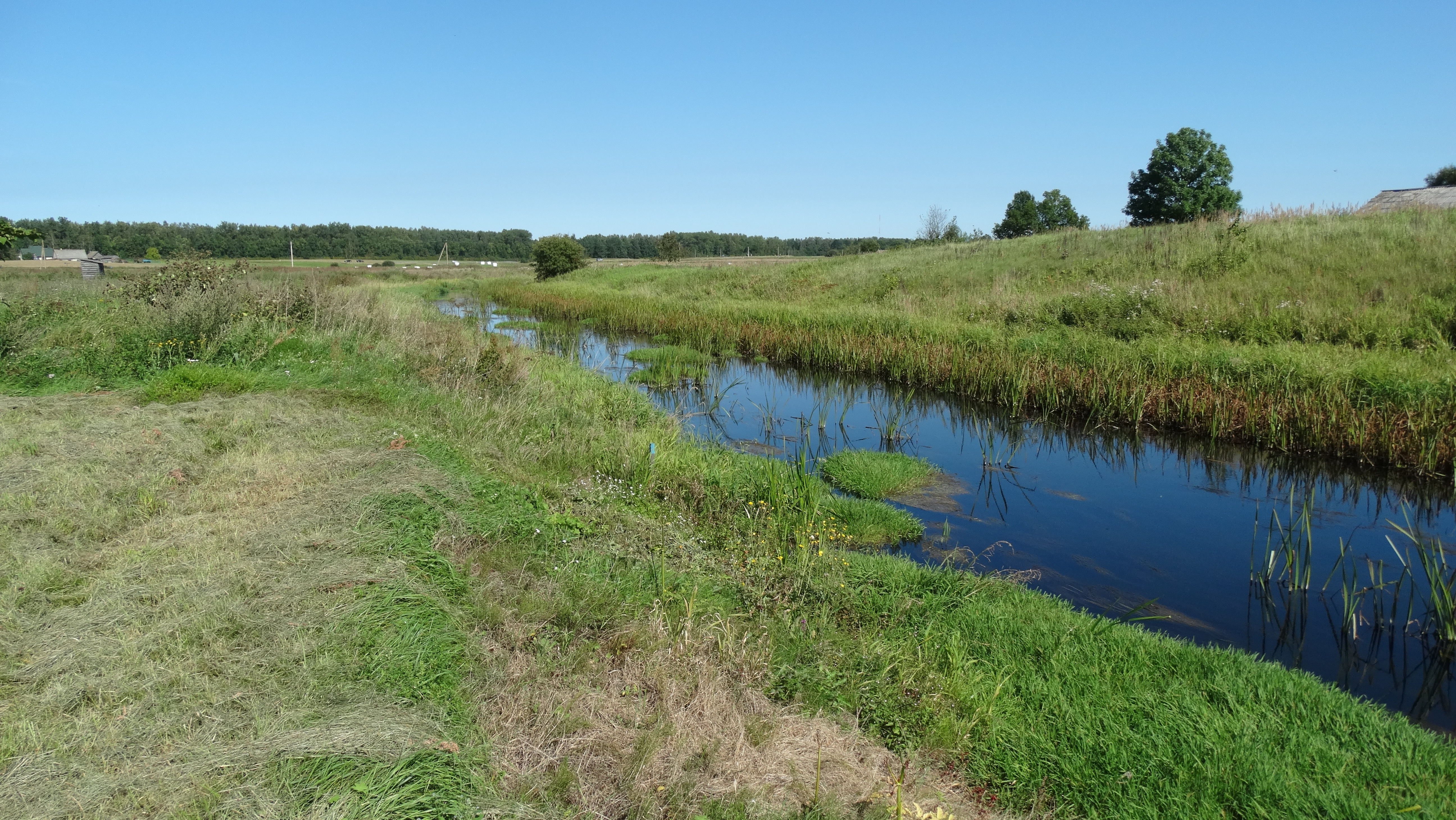 Mera River in Zalavas, Švenčionys district, Lithuania